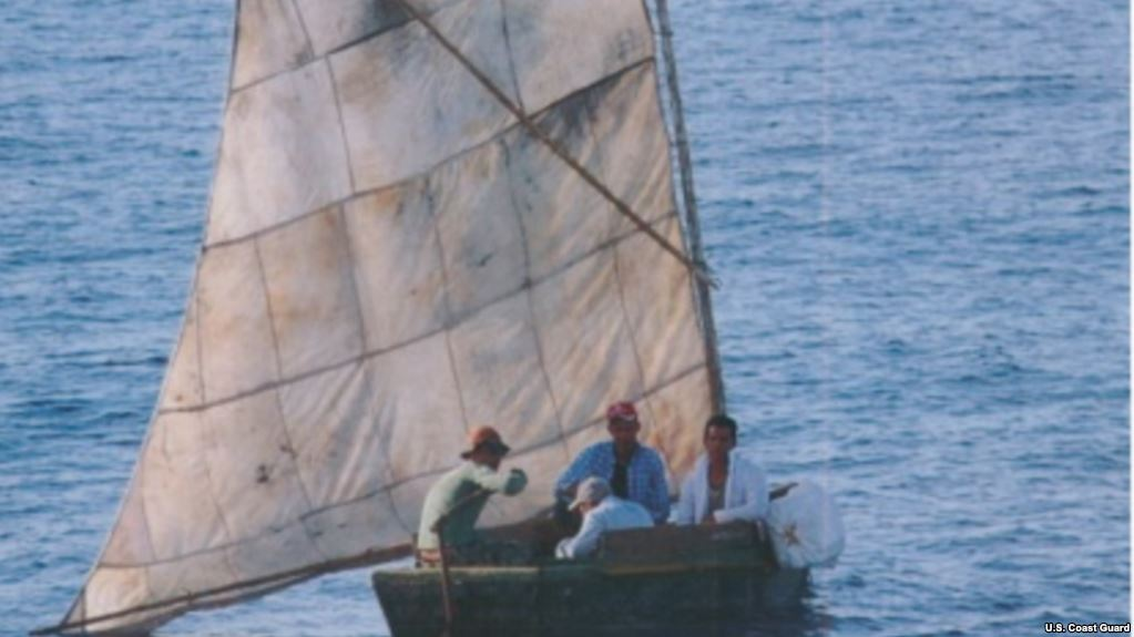 Cuban migration crisis